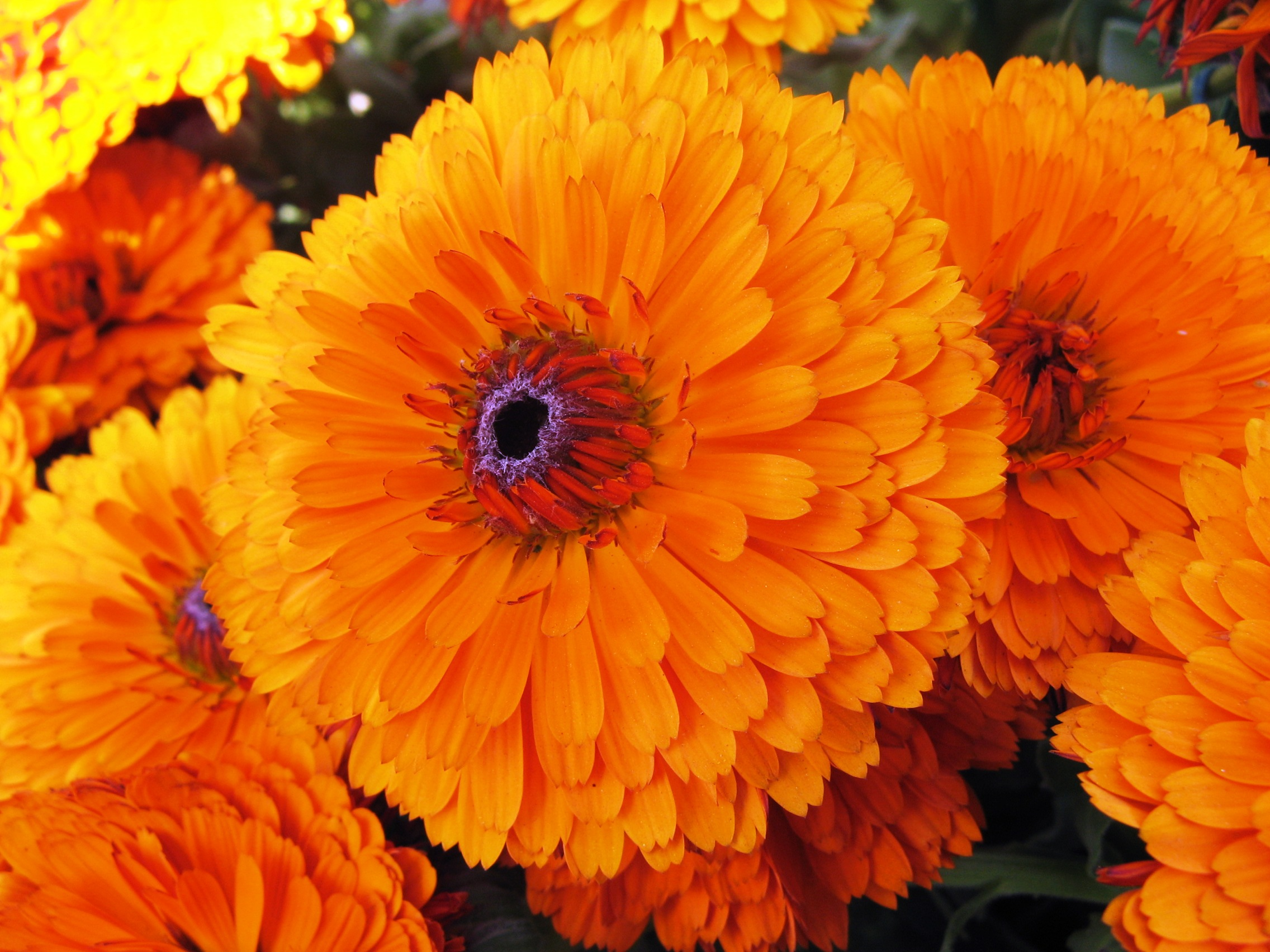 This is a photo taken by me on Noida Flower show 2009